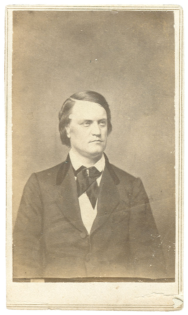 U.S. Vice-President John Cabell Breckinridge